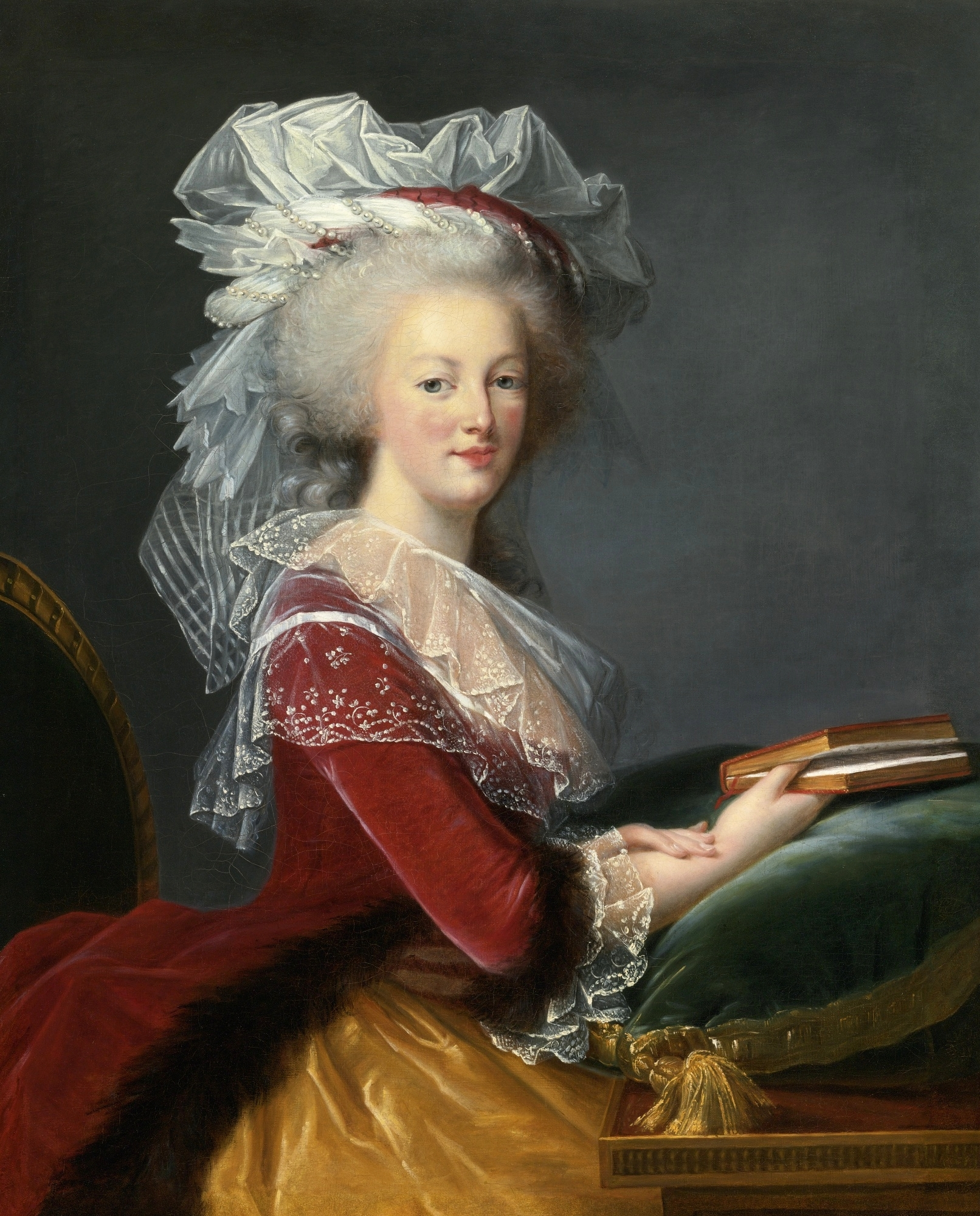 Portrait of Marie-Antoinette of Austria after an original of Élisabeth Vigée Le Brun